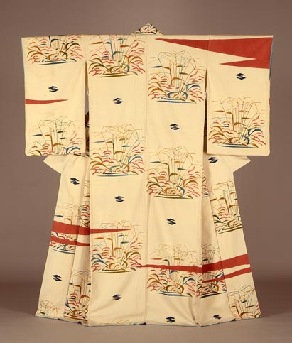 Stencil dyed kimono with autumn grasses pattern. Its type is a hybrid, with the repeating but always right-side-up pattern of a "tsukesage komon", and some elements crossing the seams as in "houmongi". Failing to meet the over-all pattern matching of the latter, for wear it would be considered very nice casual wear.